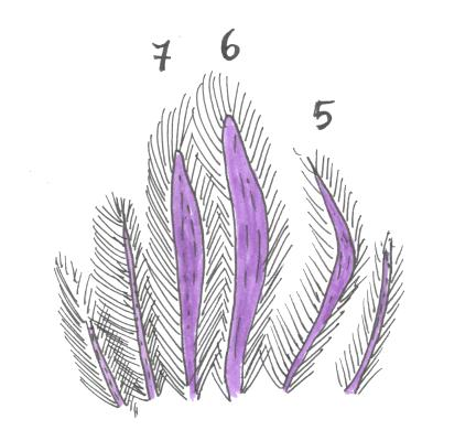 The modified secondary feathers of a male manakin